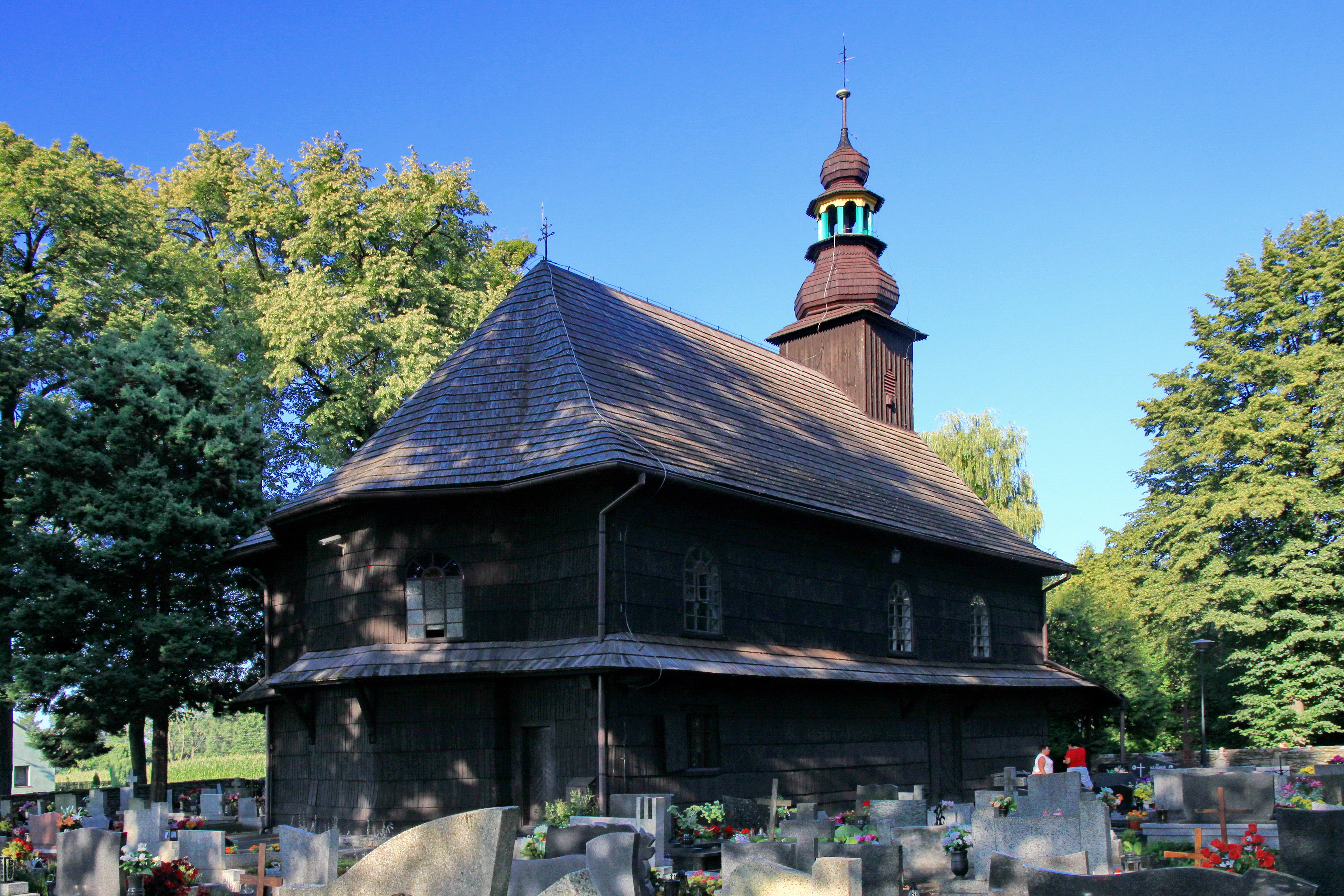 Ustroń, Saint Anne parish church, build in 1769